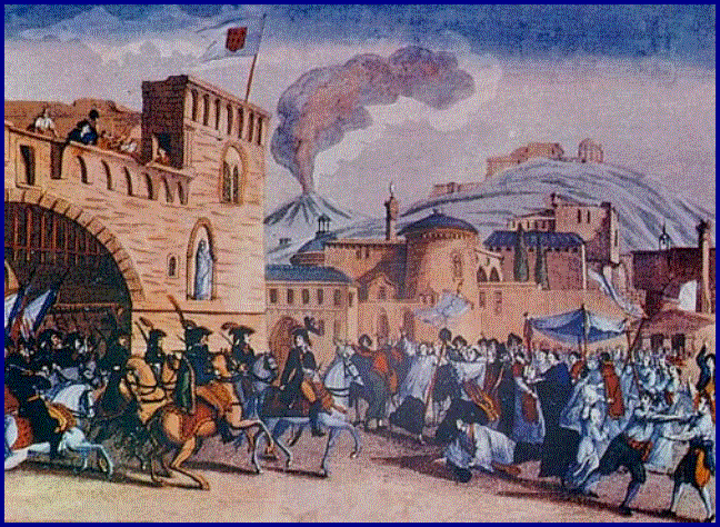 French troops in Naples (1799)